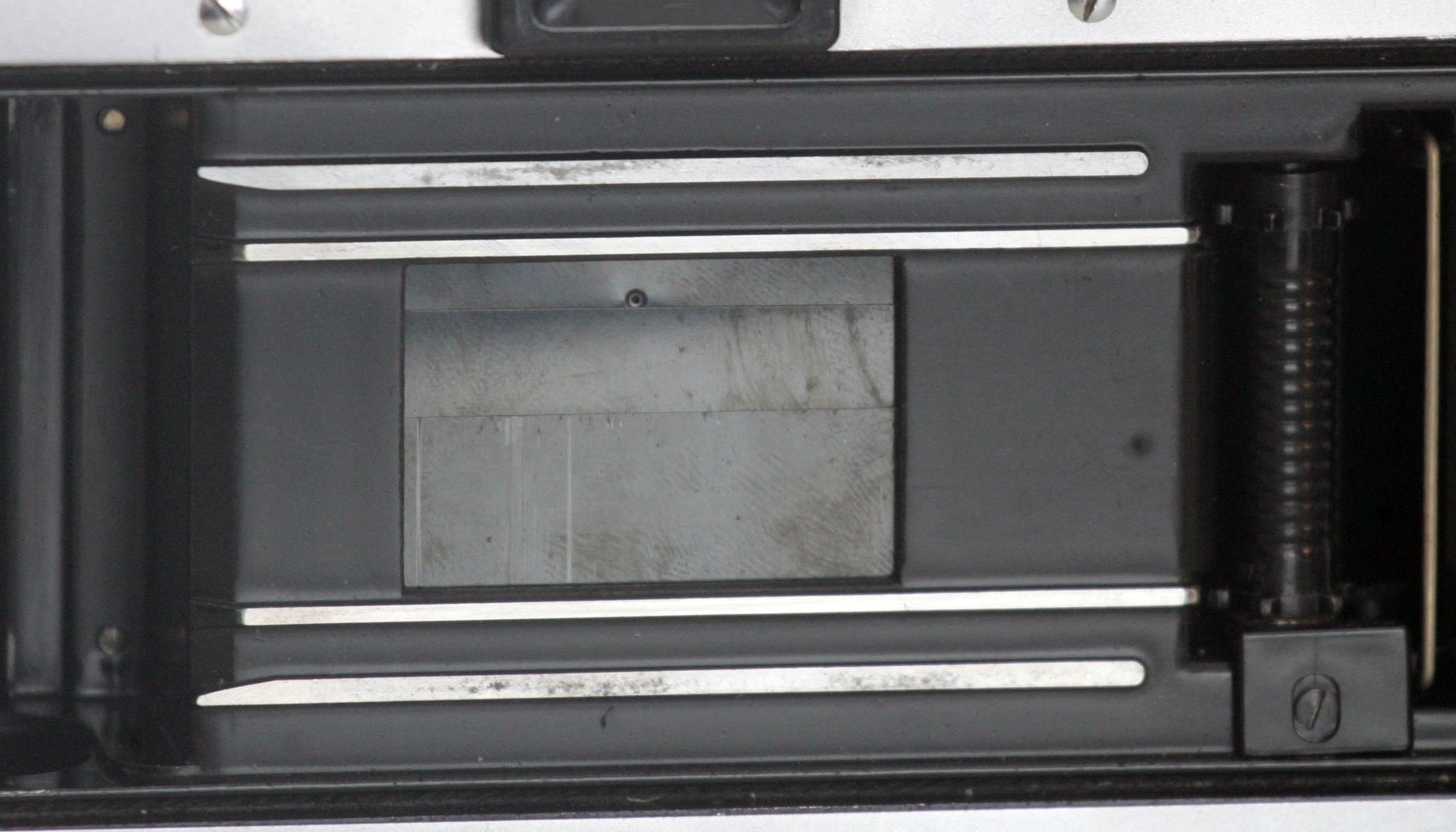 35-mm SLR camera Praktica L2 film channel and shutter curtains.